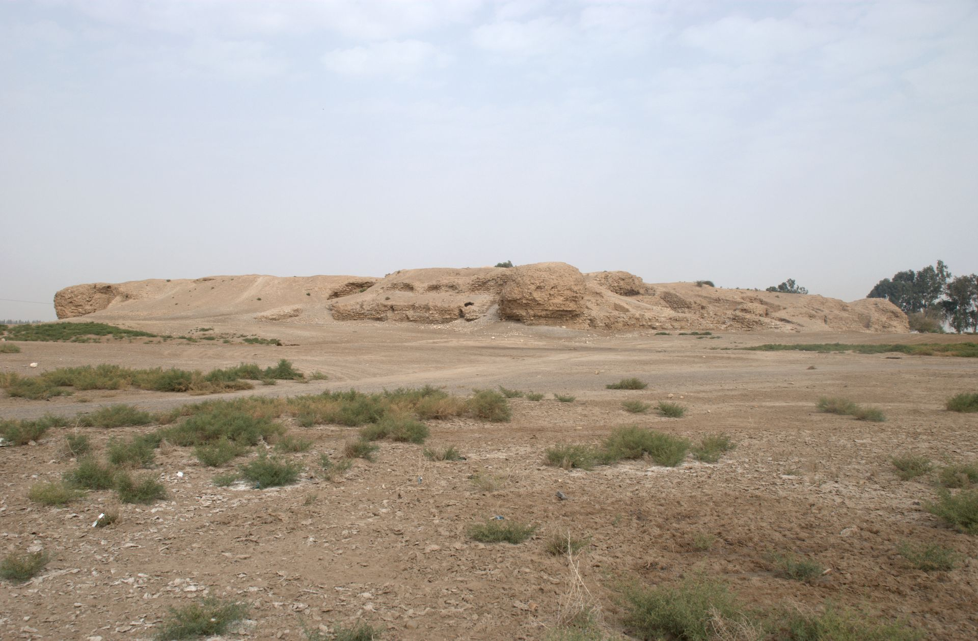 Heraqla, near ar-Raqqah, Syria, from southeast